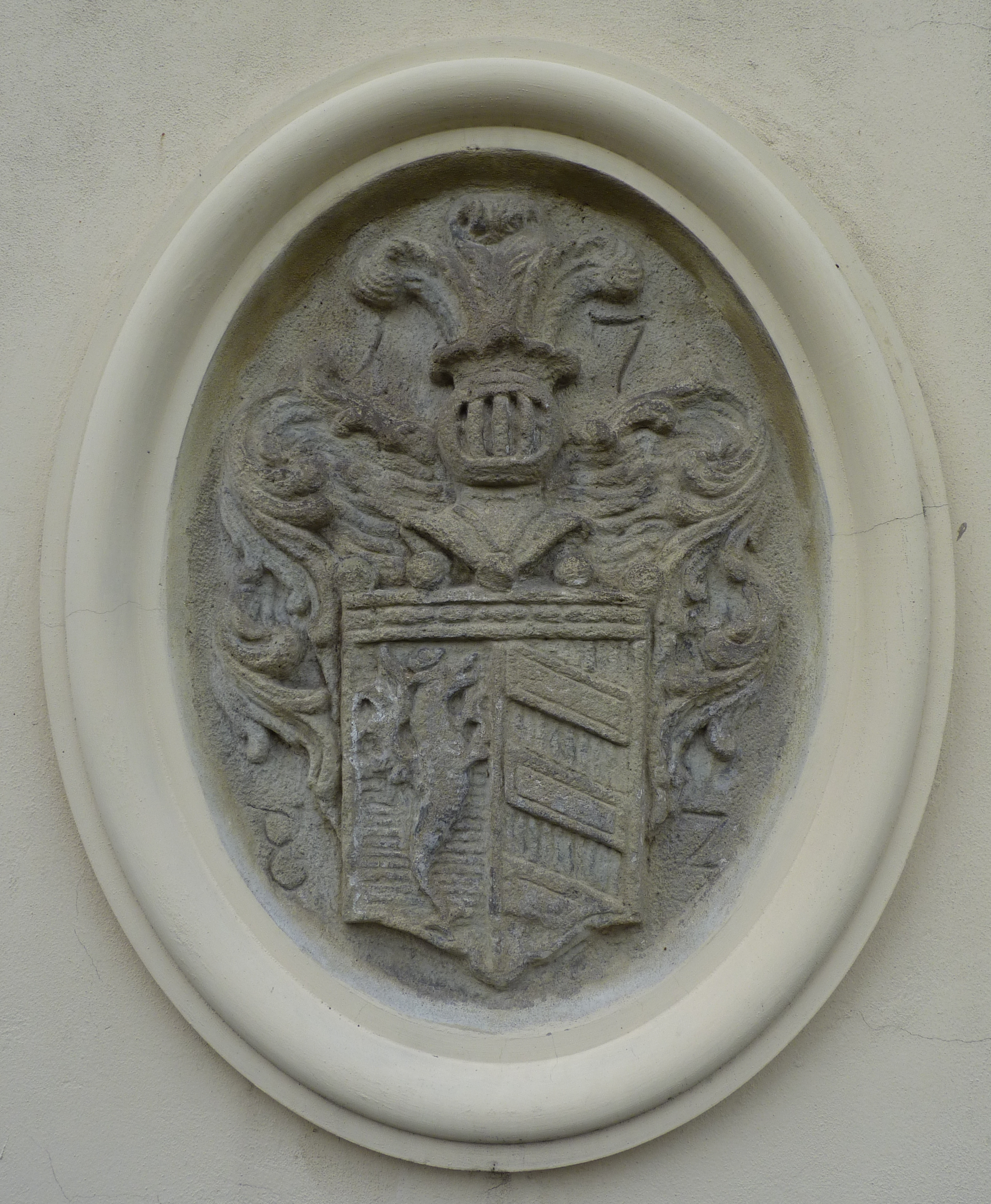 Castle and its areal in Chotěbuz. Karviná District, Moravian-Silesian Region, Czech Republic